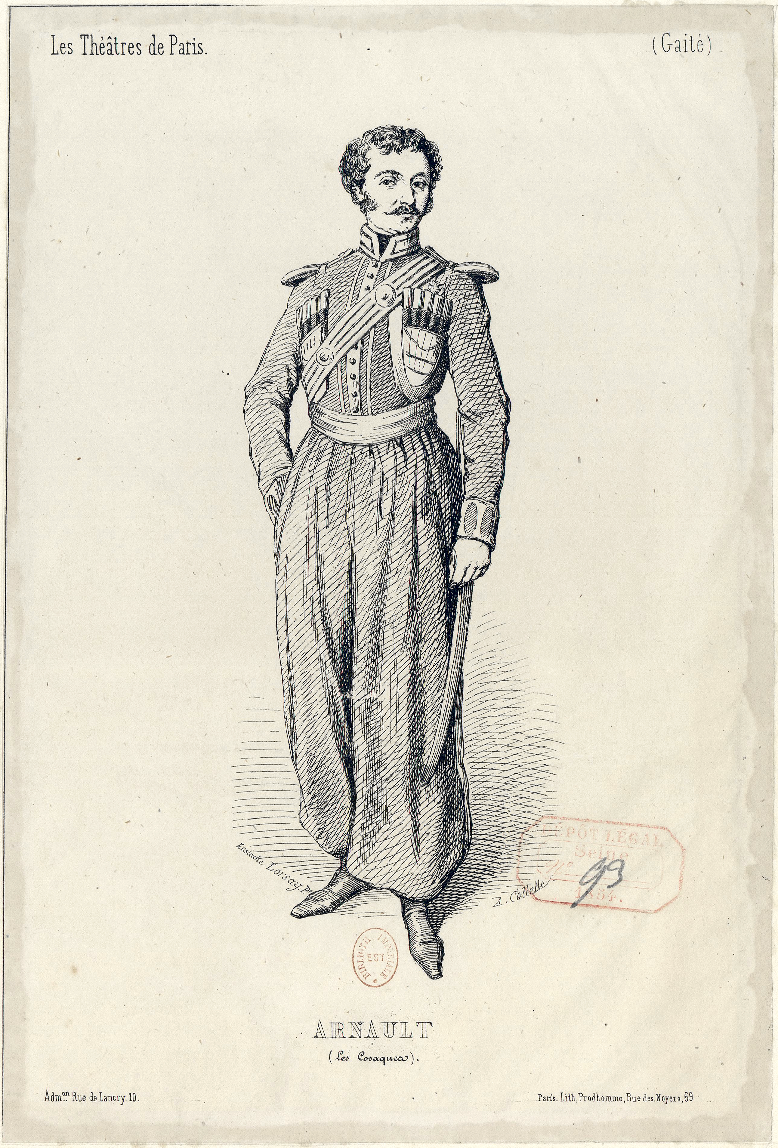 Portrait of Alphonse-François Arnault (1819–1860), French playwright by Alexandre Collette after Eugène Lampsonius.